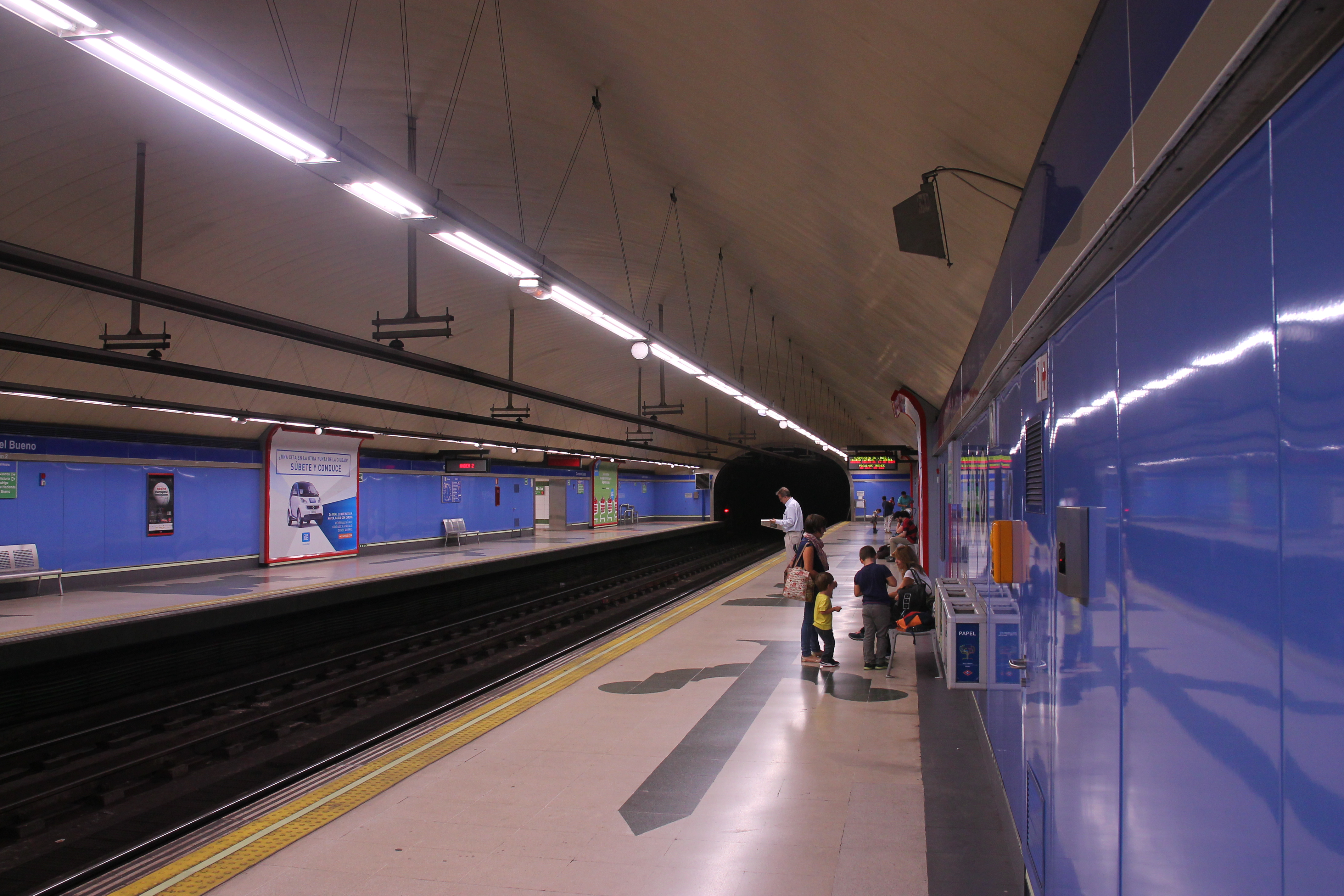 Platform of the Guzmán el Bueno metro station, line 6, Madrid